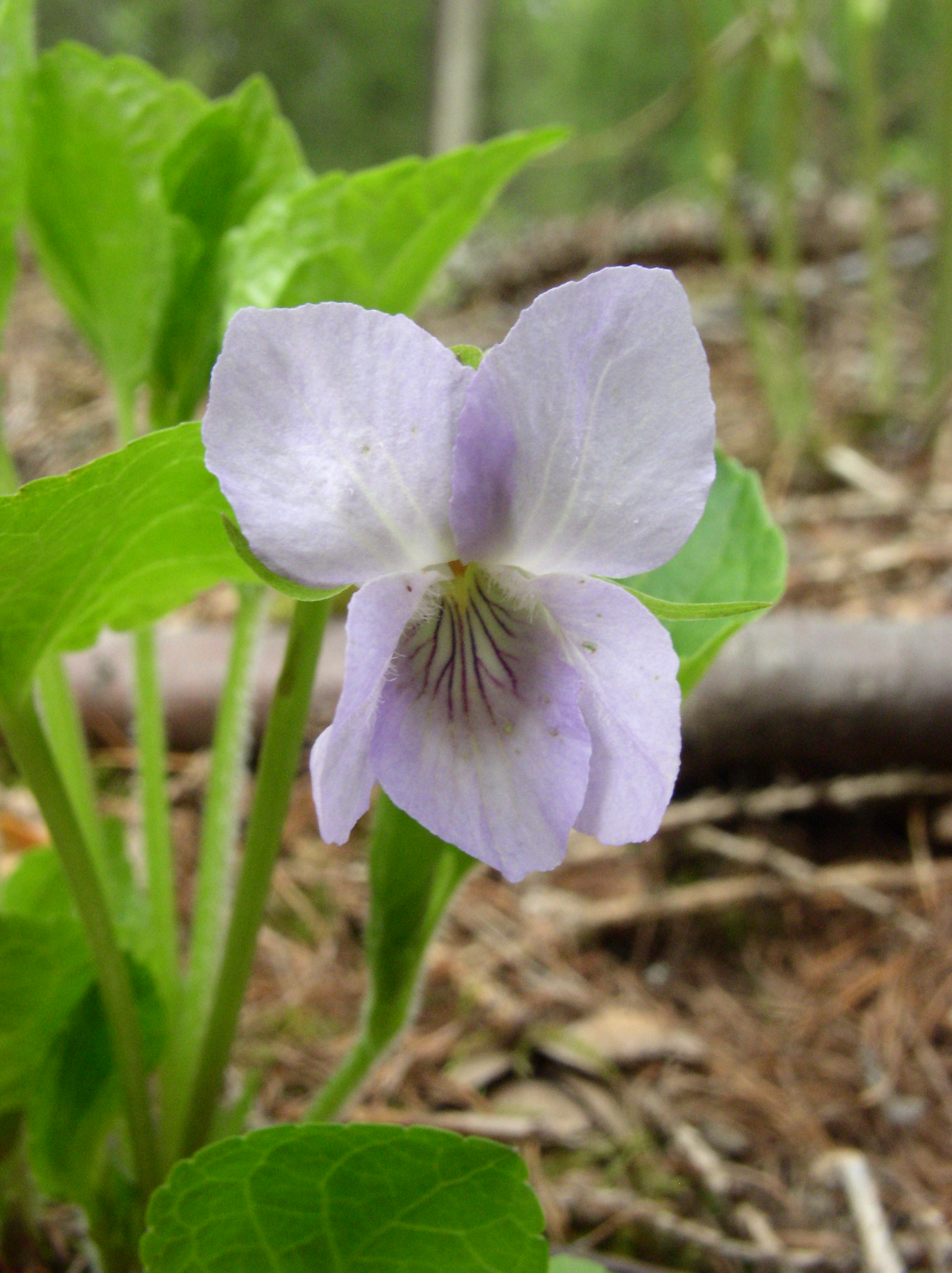 Viola mirabilis flower in Savonlinna, Finland.